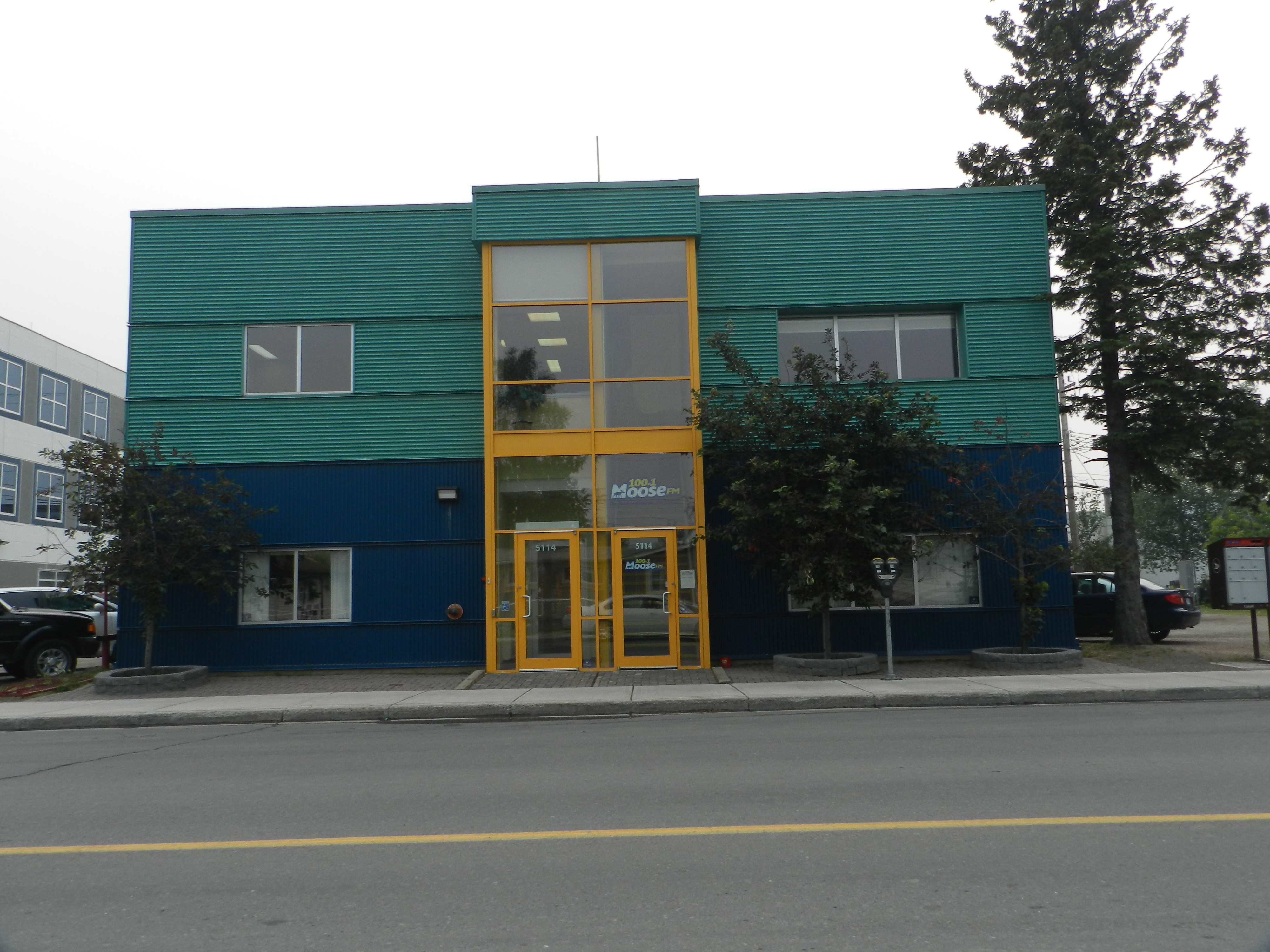 CJCD-FM 100.1 Moose FM